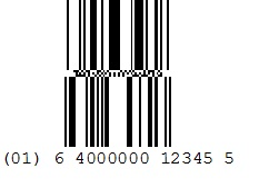 GS1 databar stacked omnidirectional